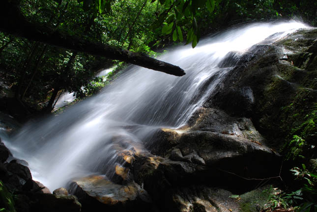 A huge waterfall in Commonwealth Forest Park.